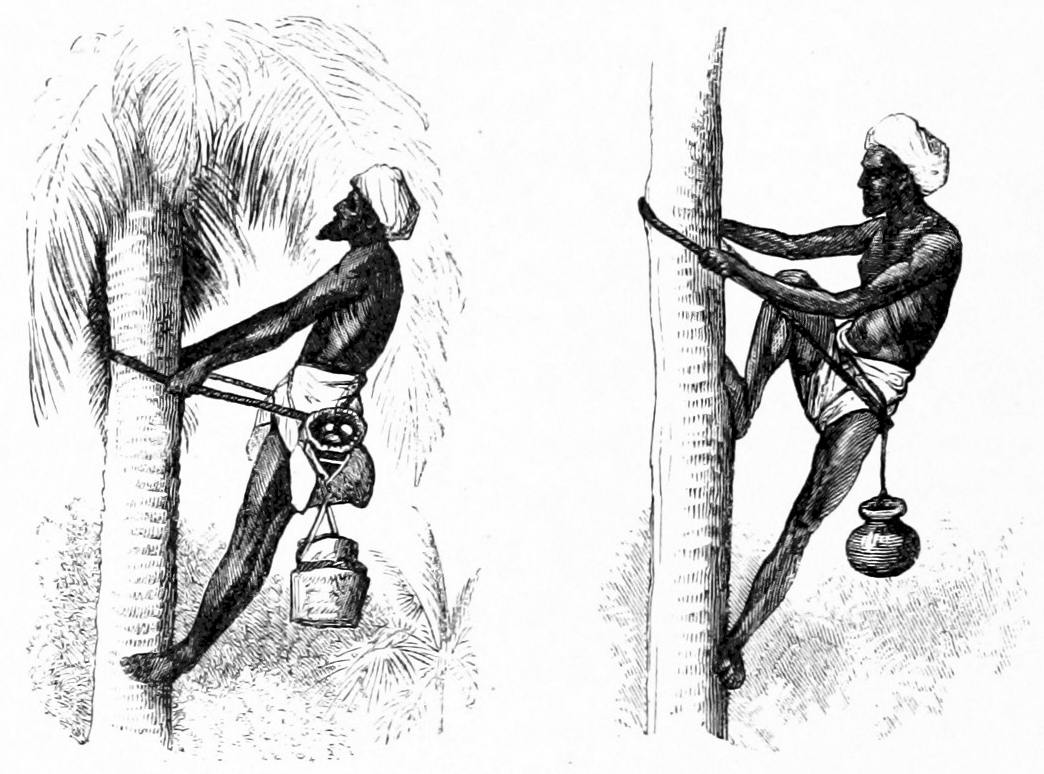 Image taken from: Title: "Letters from India and Kashmir: written 1870; illustrated and annotated 1873. [By J. Duguid. With plates.]", "Appendix" Contributor: DUGUID, J. - Author of “Letters from India and Kashmir.” Author: India Shelfmark: "British Library HMNTS 10056.ff.22.", "British Library OC ORW.1986.a.2999" Page: 32 Place of Publishing: London Date of Publishing: 1874 Issuance: monographic Identifier: 001797978 Note: The colours, contrast and appearance of these illustrations are unlikely to be true to life. They are derived from scanned images that have been enhanced for machine interpretation and have been altered from their originals. If you wish to purchase a high quality copy of the page that this image is drawn from, please order it here. Please note that you will need to enter details from the above list - such as the shelfmark, the page, the book's volume and so on - when filling out your order. Following this or the link above will take you to the British Library's integrated catalogue. You will be able to download a PDF of the book this image is taken from, as well as view the pages up close with the 'itemViewer'. Click on the 'related items' to search for the electronic version of this work. Click here to see all the illustrations in this book and click here to browse other illustrations published in books in the same year. Please click on the tags shown on the right-hand side for other ways to browse the illustrations.